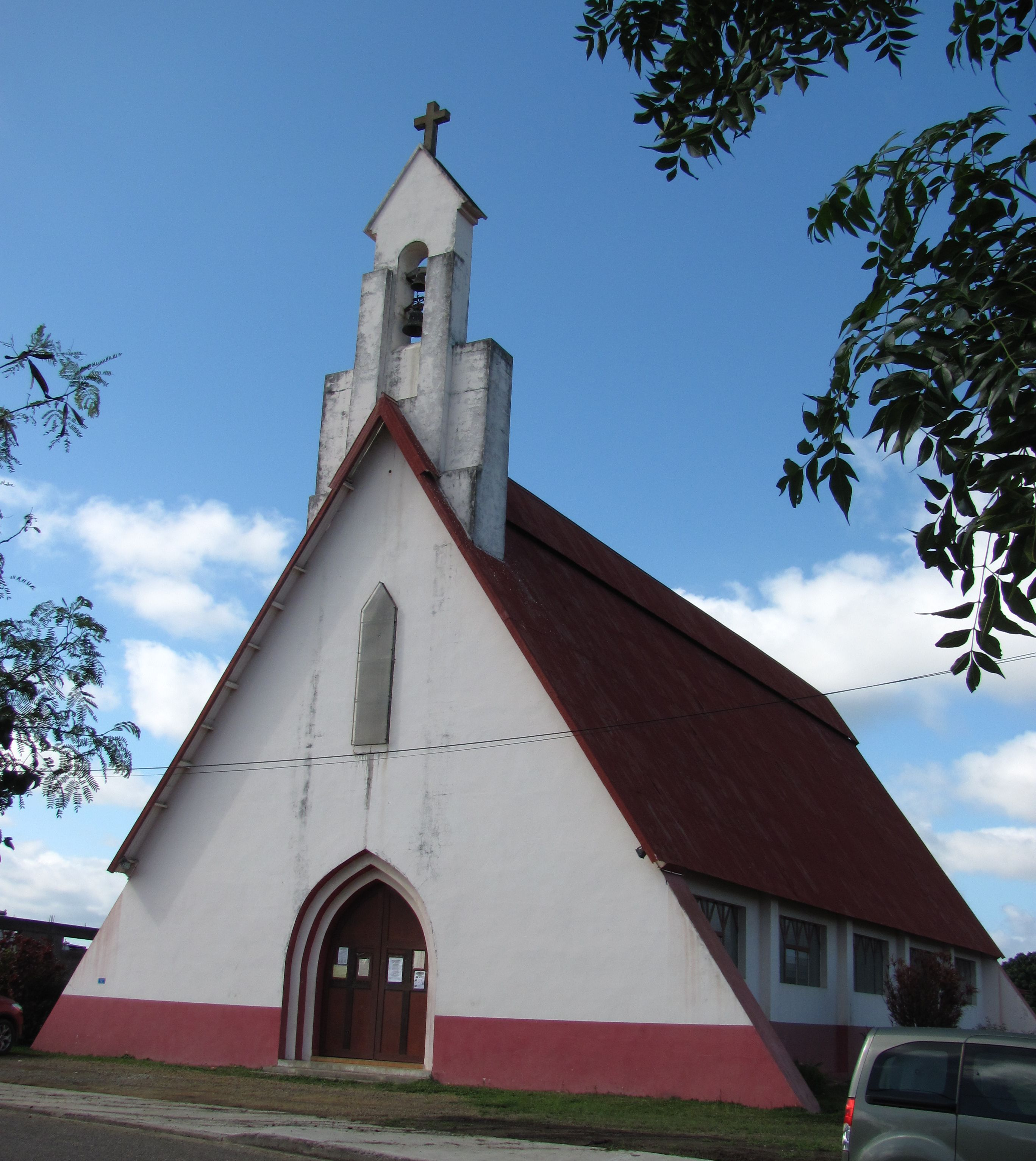 Catholic Church (built in 1954), Koné, New Caledonia